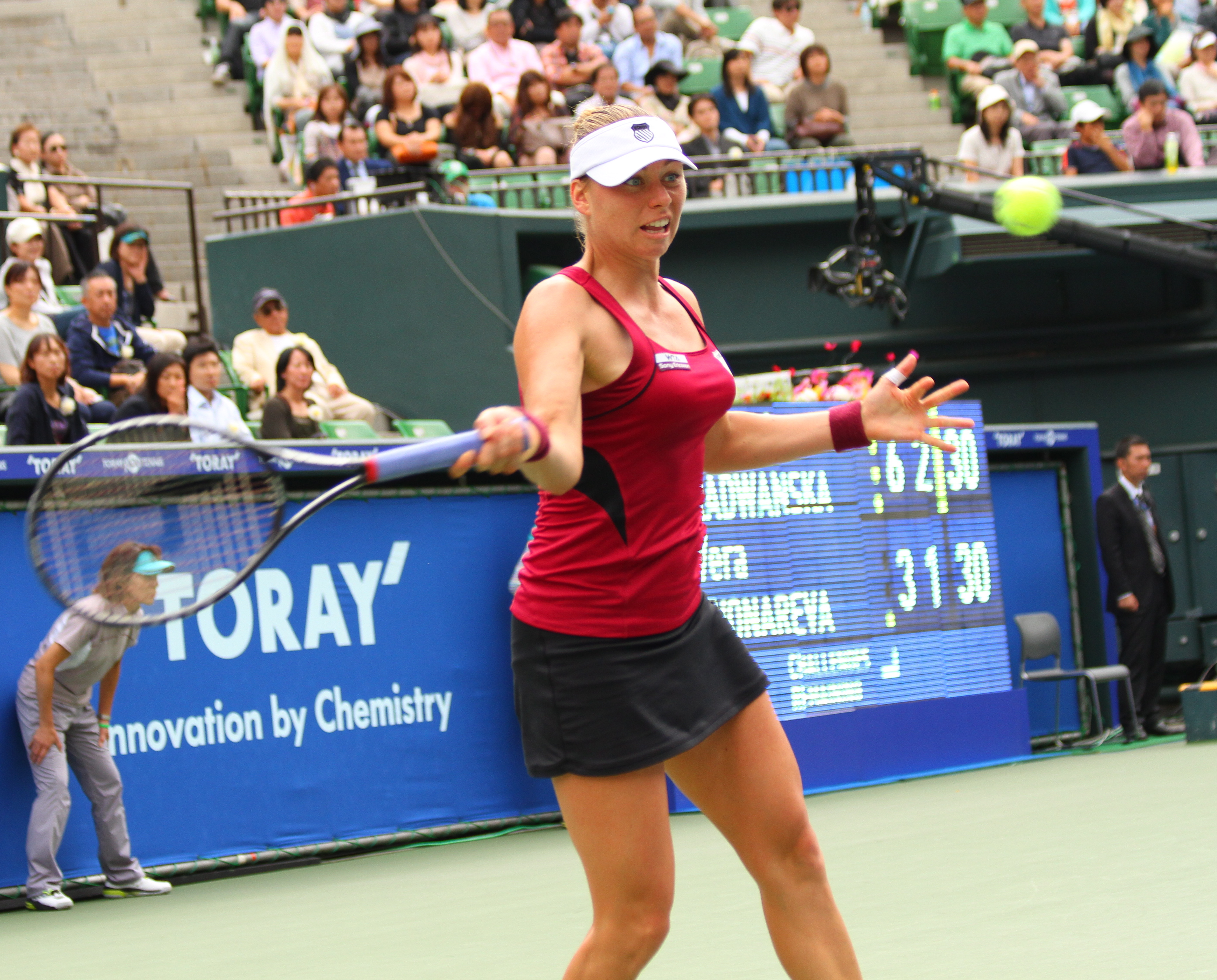 Vera Zvonareva at 2011 Toray Pan Pacific Open Tennis Tournament